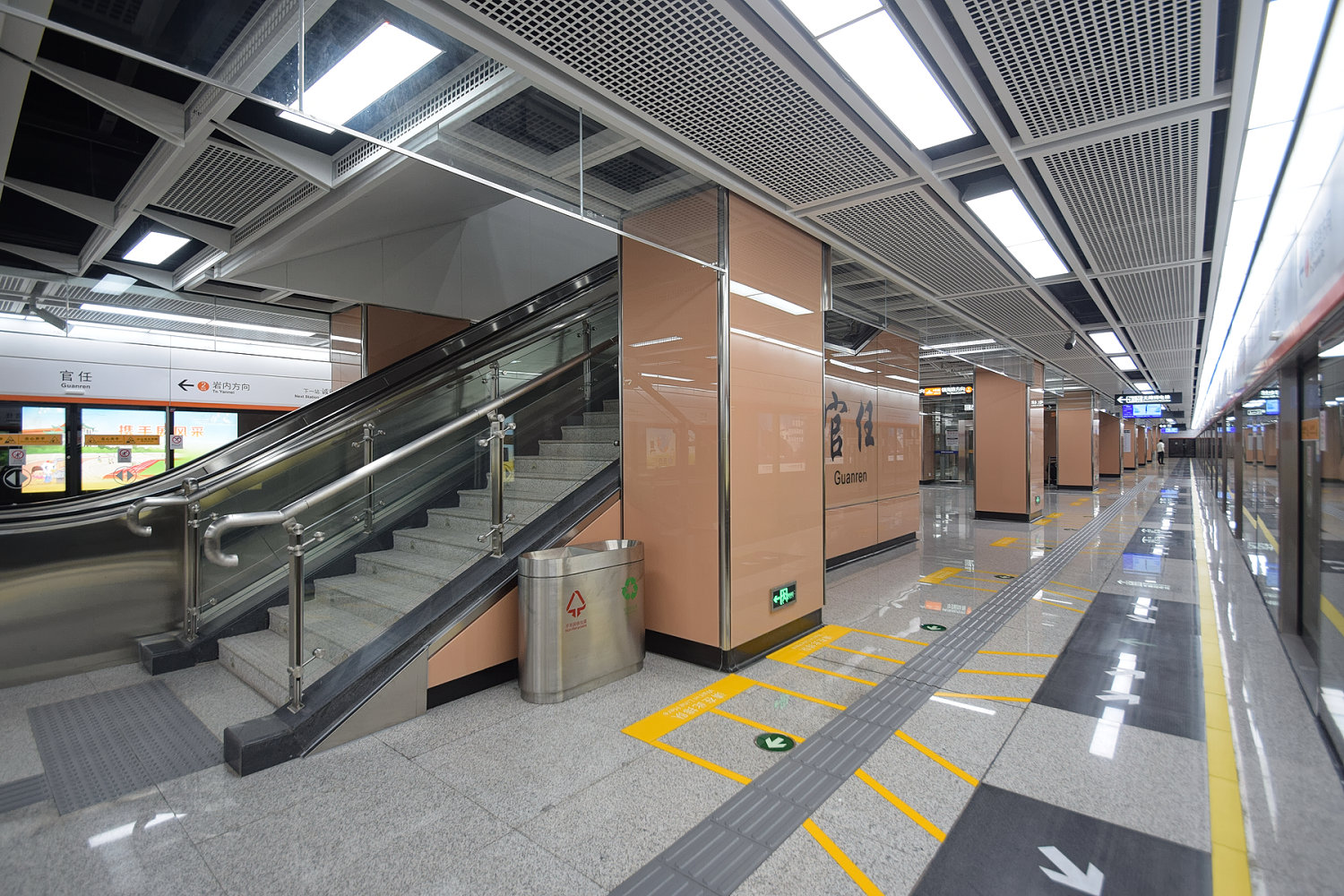 Line 1 Platform of Guanren Station, Xiamen Metro